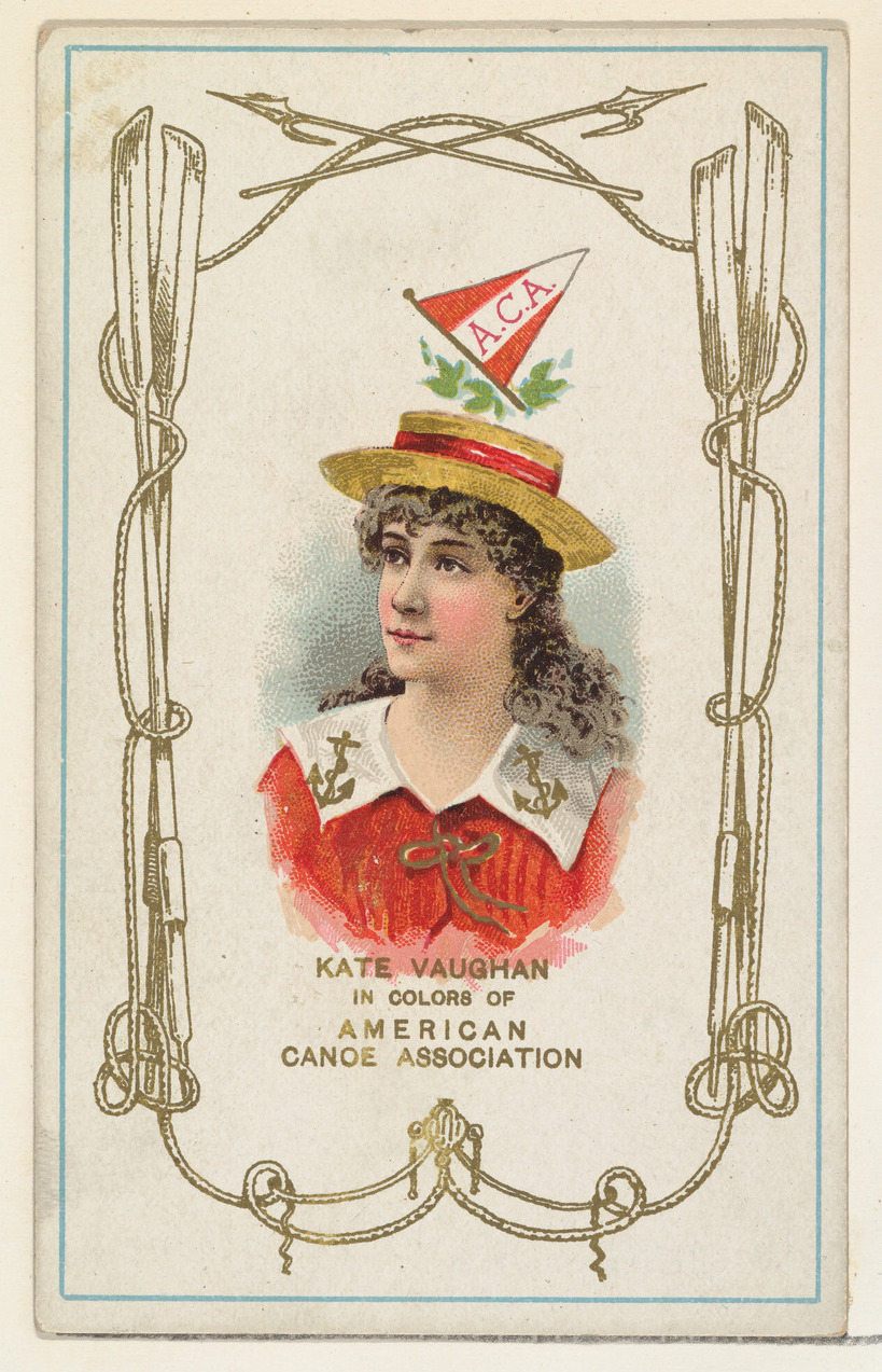 Print; Prints